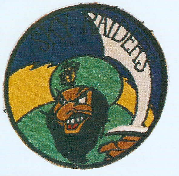 Scanned from *Millstein, Jeff. (1995). United States Marine Corps Aviation Squadron Unit Insignia, 1941 - 1946. Turner Publishing Company. ISBN 1-56311-211-6. Squadron logo for VMF-452